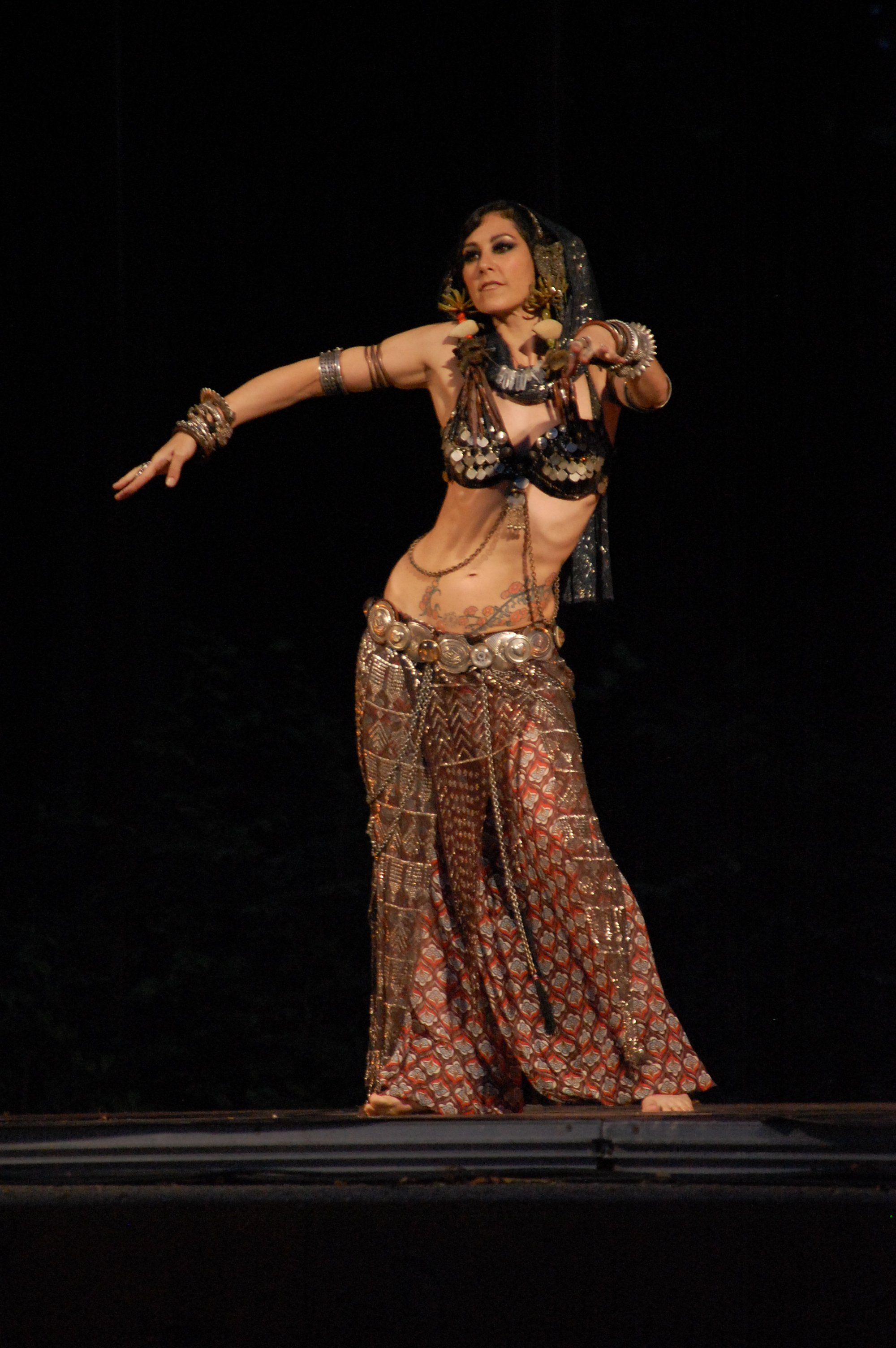 Rachel Brice, at the Tribal Umrah festival, Rennes August 2012